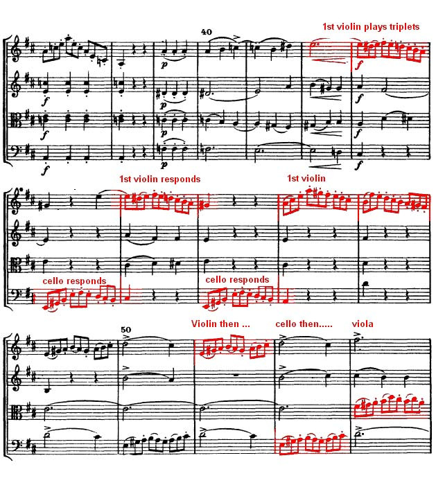 Score of Haydn quartet Opus 20 No 4, annotated